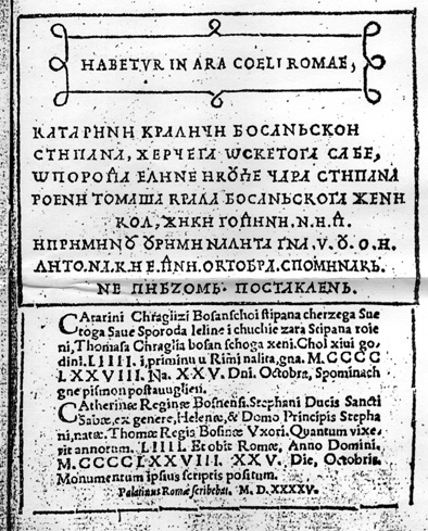 The original epitaph on the tomb of Queen Catherine of Bosnia and its Latin translation